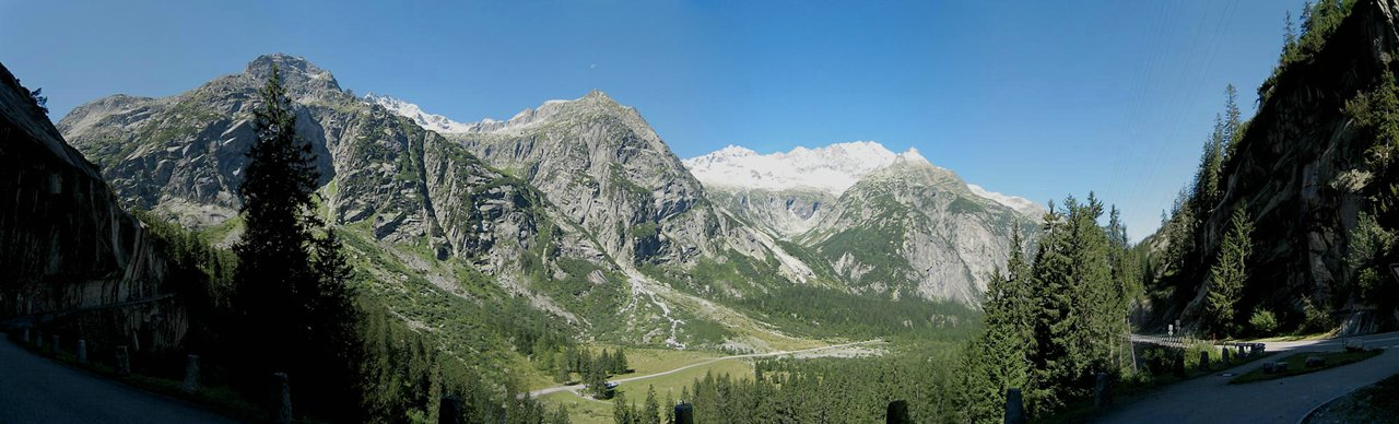 Handegg as seen from a part of the old Grimselpass road, Guttannen BE, Switzerland (@1530 m AMSL)